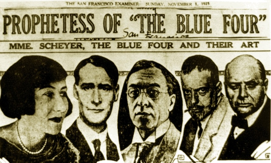 Collage consisting of a section of a newspaper page of the "San Francisco Examiner" from 1 November 1925, and five photo cutouts depicting (from left) Galka Scheyer, Lyonel Feininger, Wassily Kandinsky, Paul Klee and Alexej Jawlensky